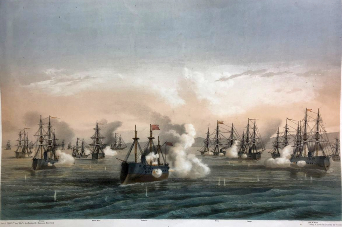 Naval combat before Cartagena, on the 8th of October 1873 (however, this dating is wrong, this naval battle took part on the 11th of October), in the centre the Spanish ironclad Numancia